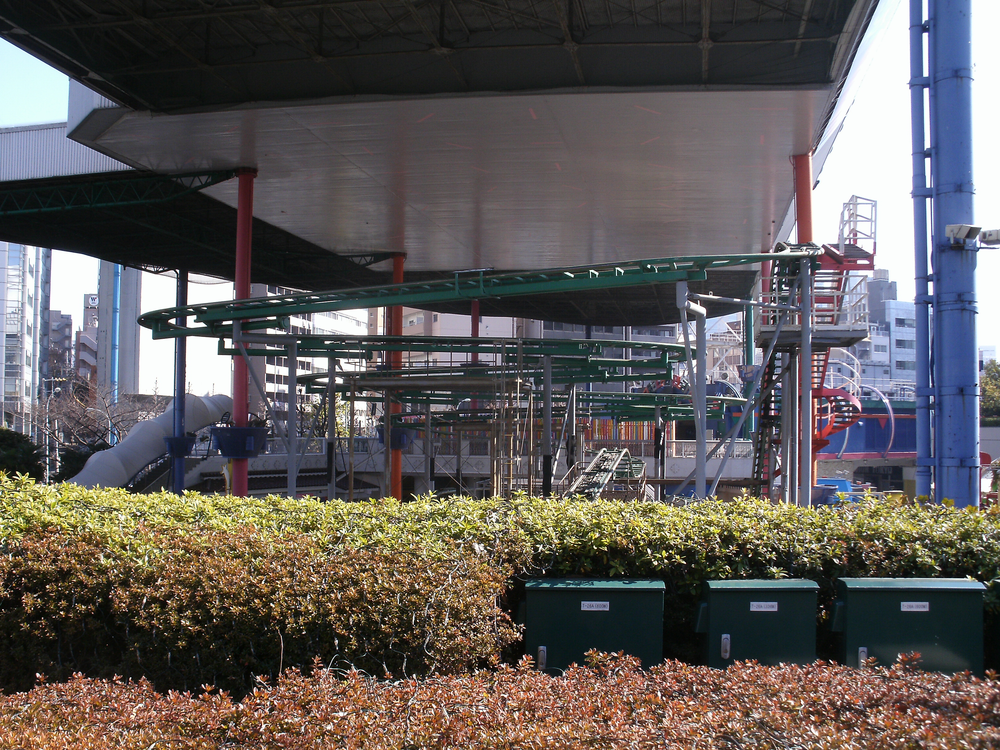 Spinning Coaster Maihime